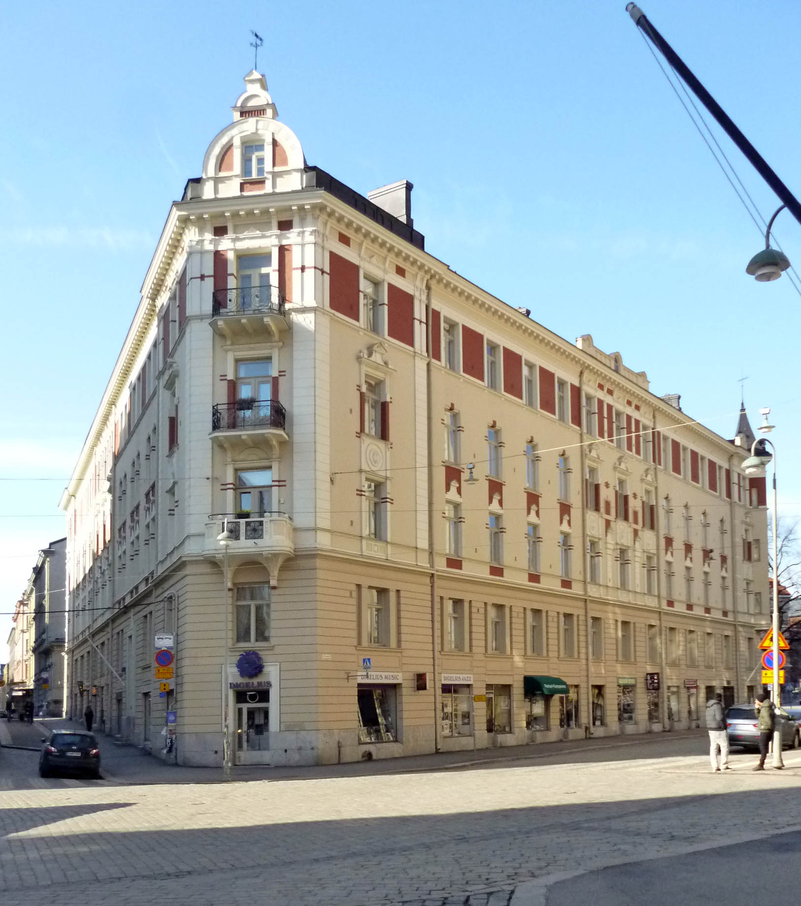 Wuorinen apartment building, Fredrikinkatu 19 – Merimiehenkatu 6, Viiskulma, Punavuori, Helsinki, by architects Usko Nyström-Petrelius-Penttilä (1896)